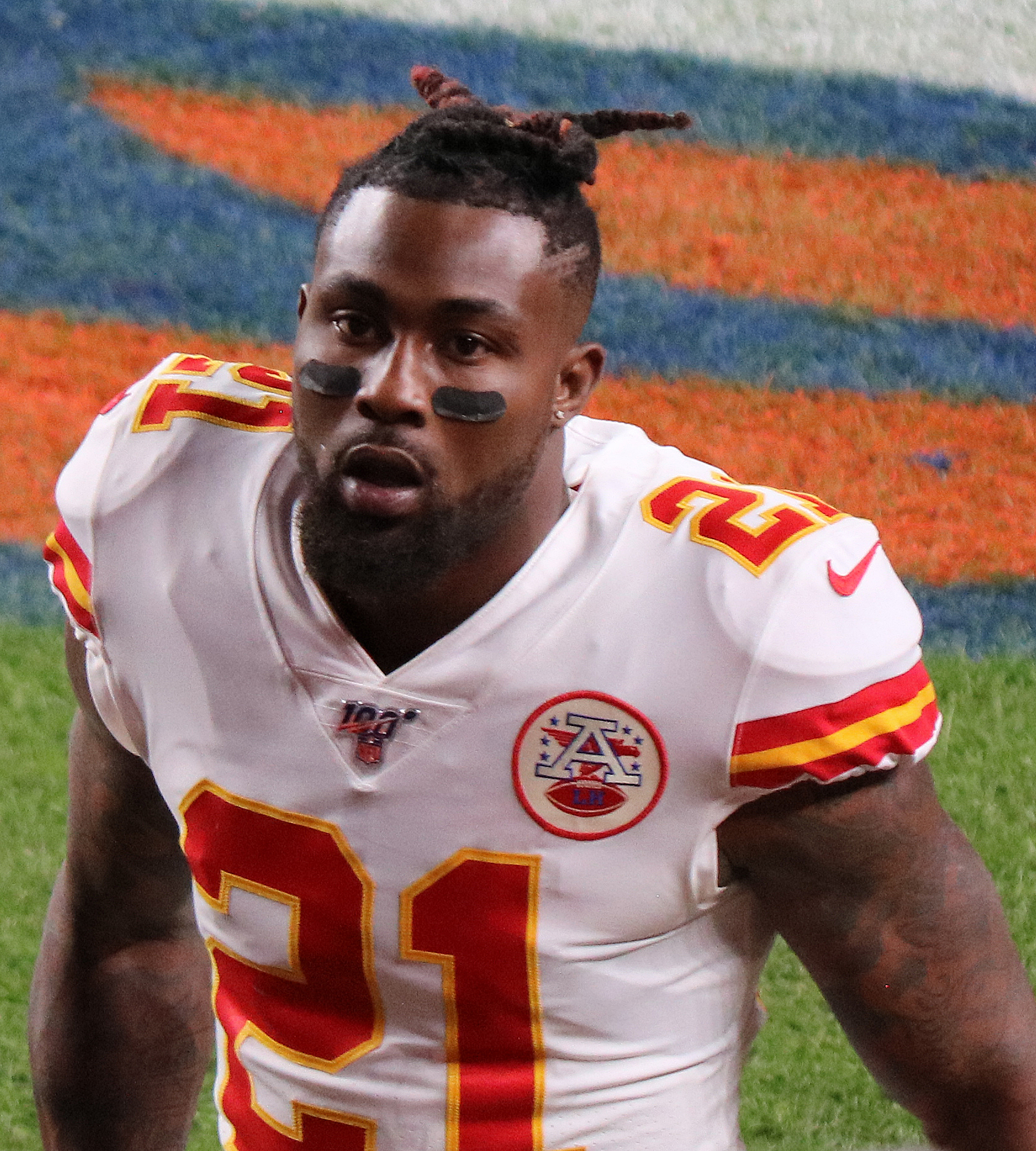 Bashaud Breeland, a National Football League player.